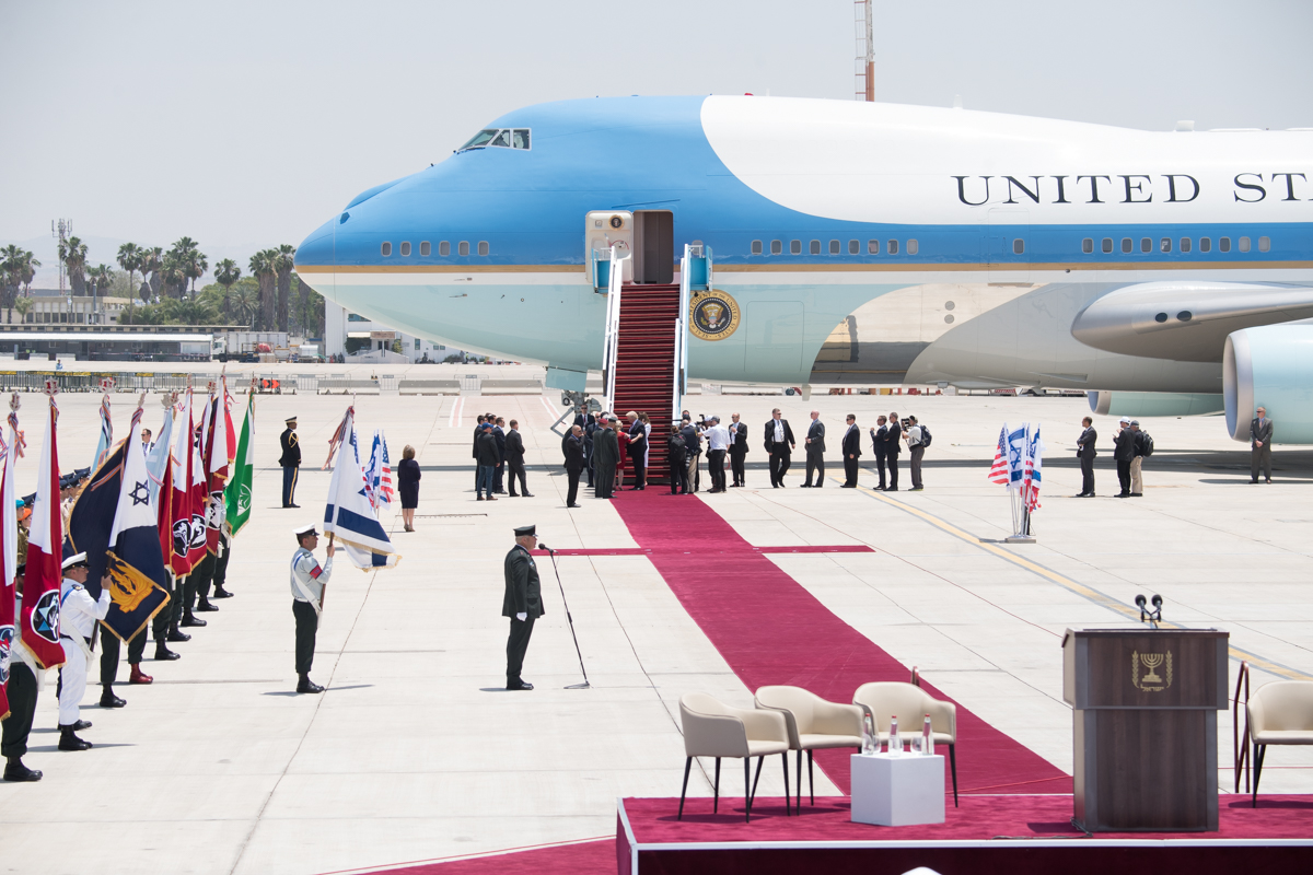 President Donald Trump and First Lady Melania Trump receive a red carpet welcome on their arrival to Ben Gurion International Airport, Monday, May 22, 2017, in Tel Aviv, Israel. (Official White House Photo by Andrea Hanks)